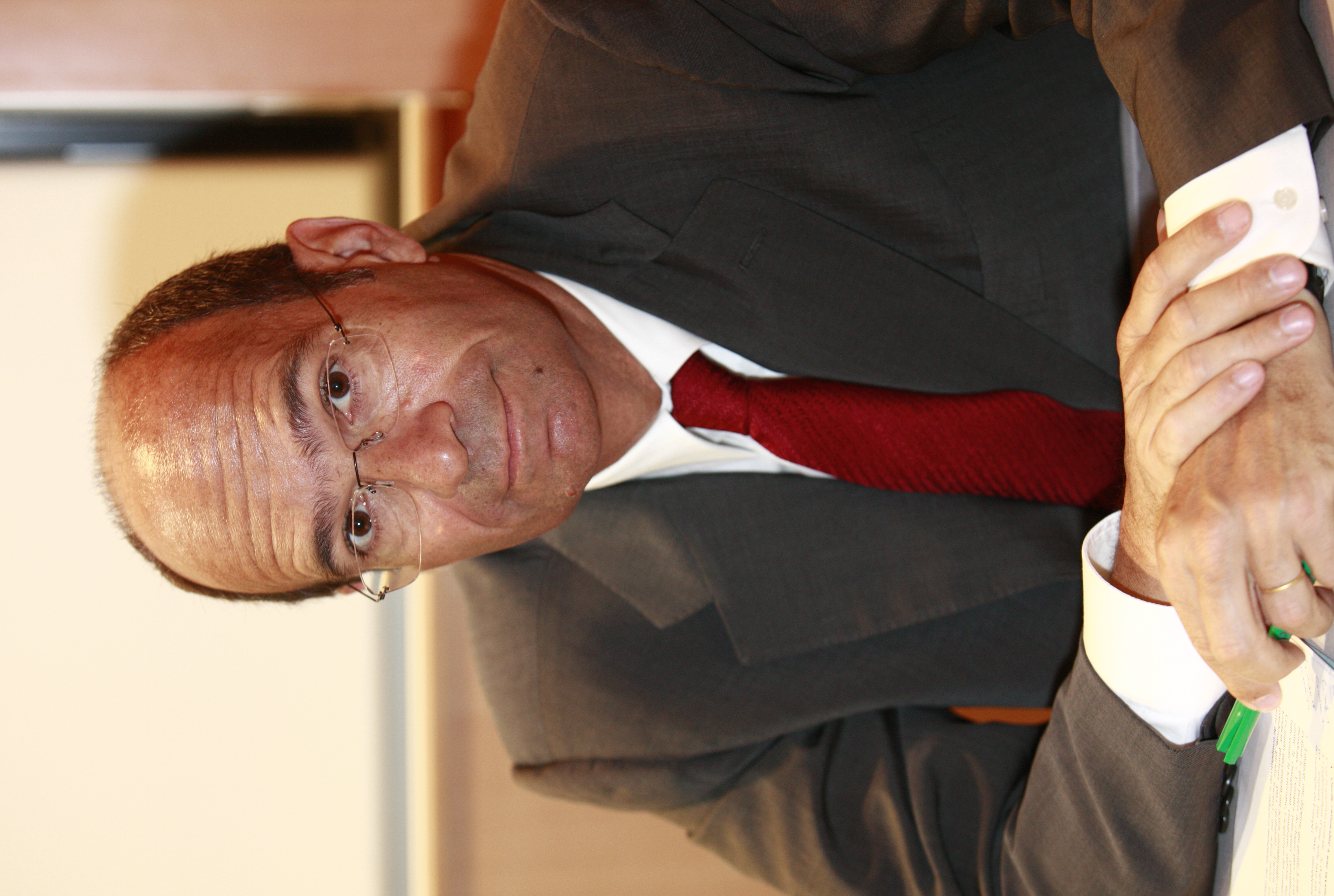 Eric Woerth, French politician